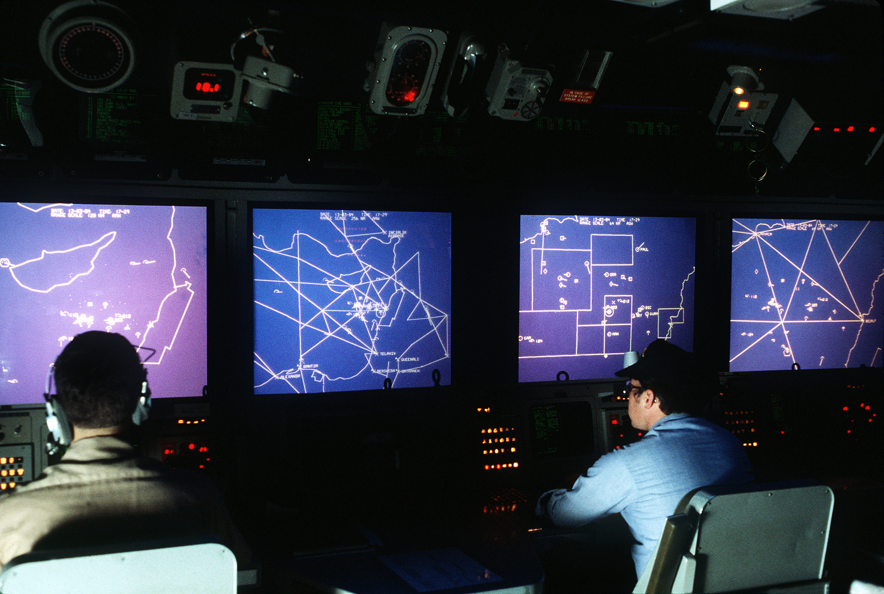 Technicians monitor displays in the combat information center aboard the Aegis guided missile cruiser USS TICONDEROGA (CG-47). The ship is operating off the coast of Lebanon.